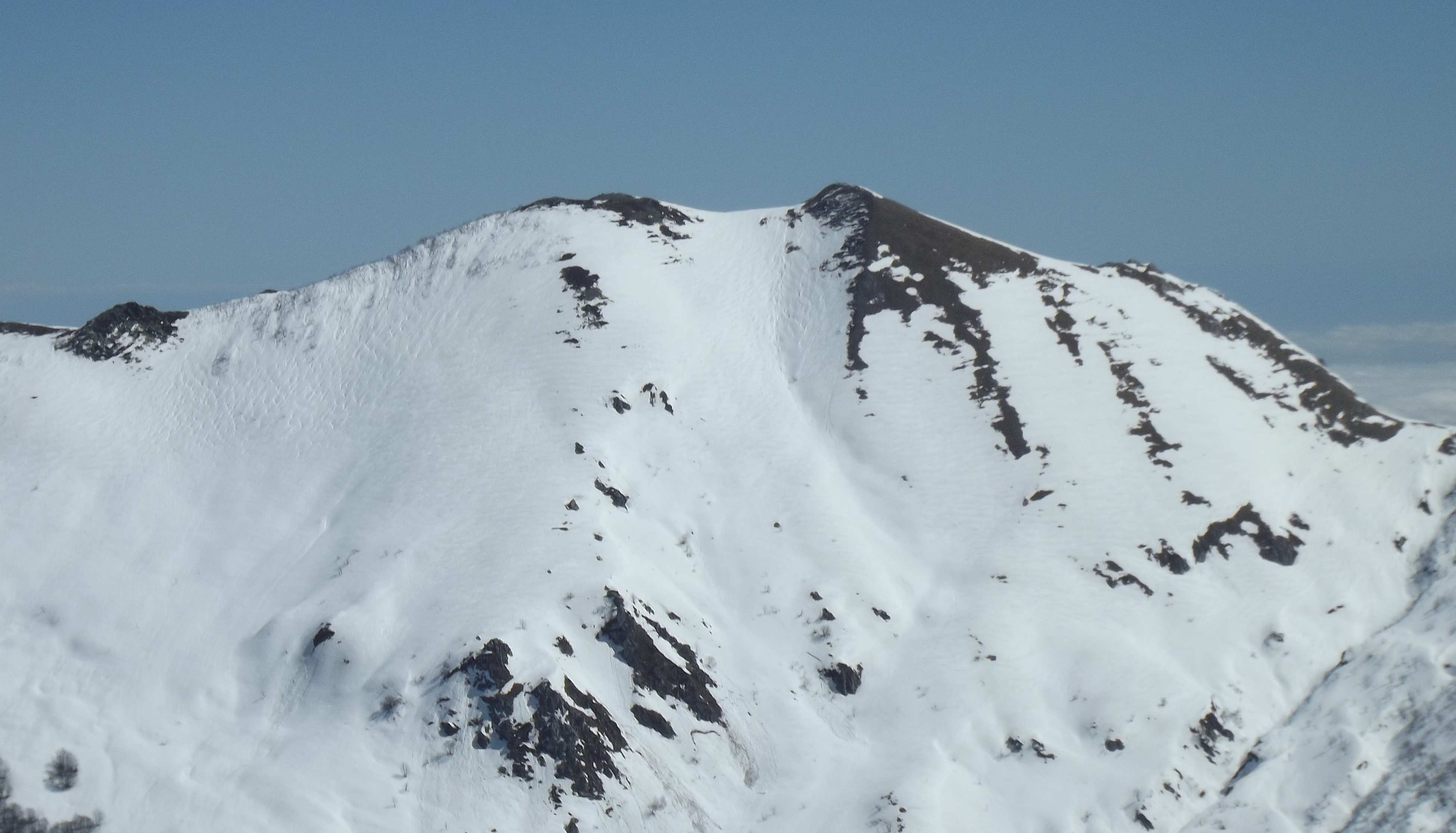 Monte Grosso from Monte Baussetti (Alpi Liguri, CN, Italy)